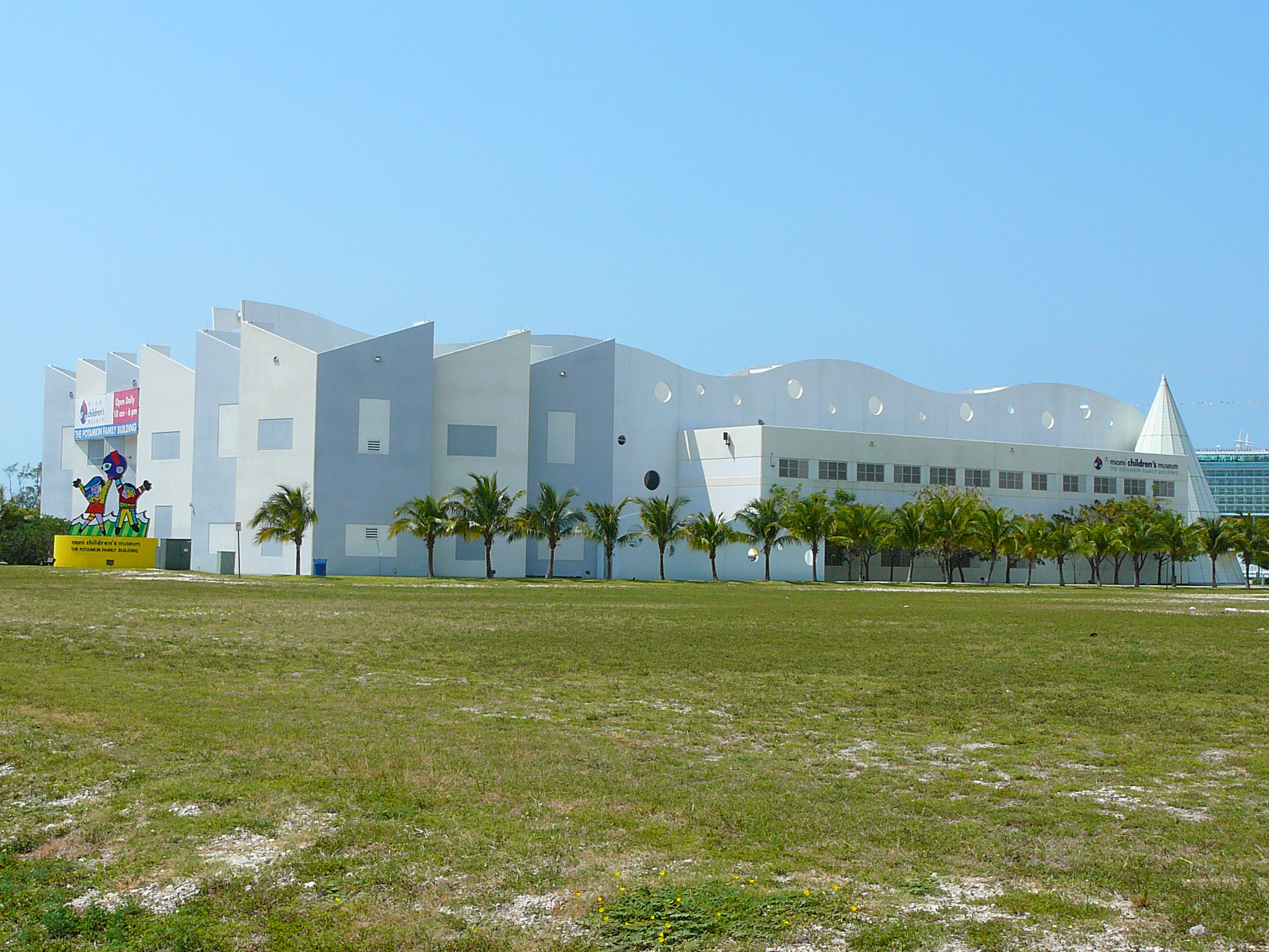 Digital photo taken by Marc Averette. The Miami Children's Museum on Watson Island in Miami, Florida 5/17/2008